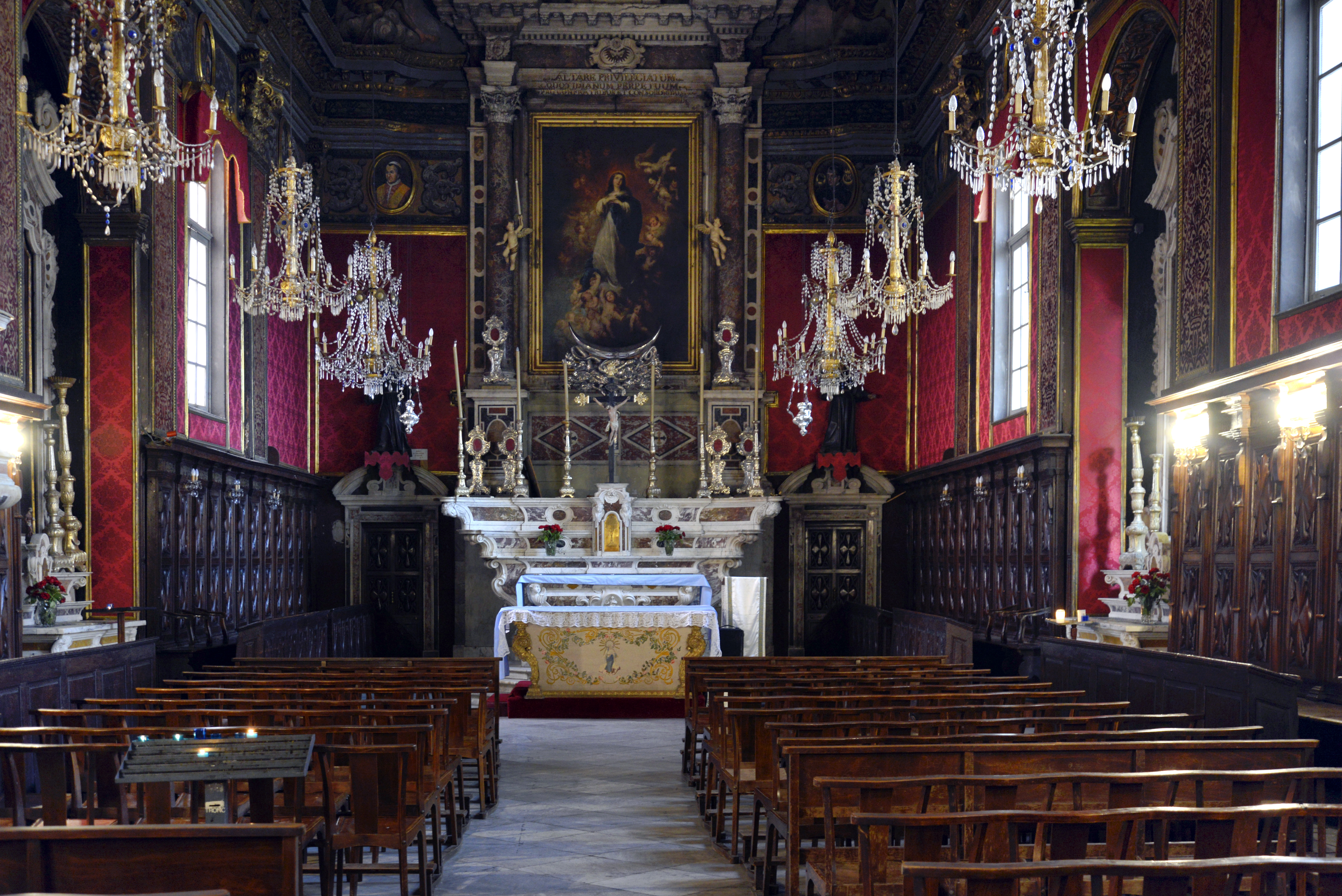 Bastia, Haute-Corse - Maître-autel de l'oratoire de la confrérie de l'Immaculée Conception avec l'ntependium et son cadre. This object is classé Monument Historique in the base Palissy, database of the French furniture patrimony of the French ministry of culture, under the references PM2B000054 and PM2B000055.